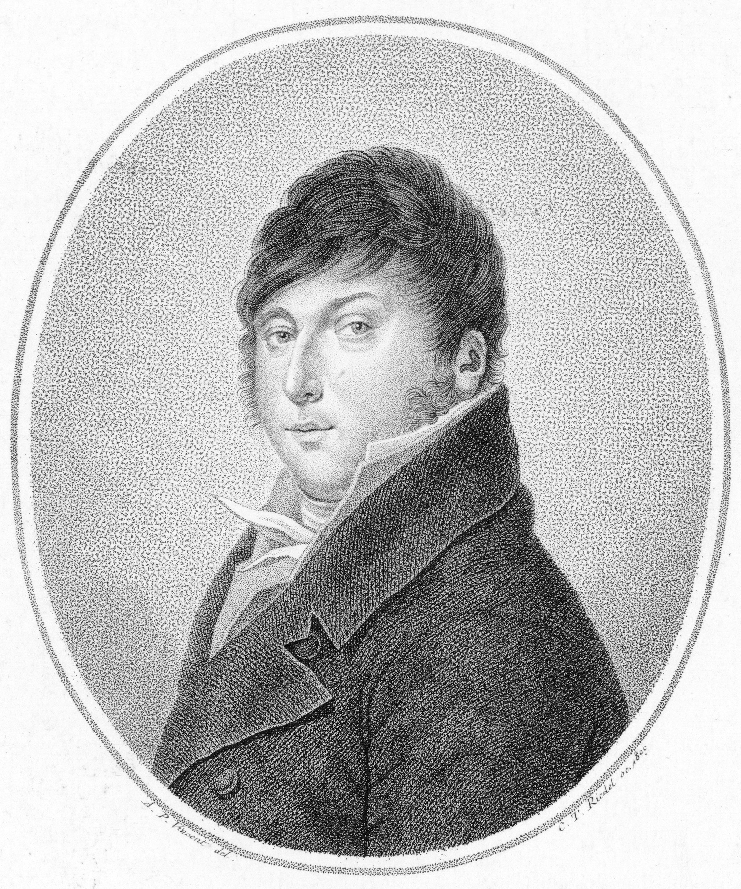 Depicted person: Rodolphe Kreutzer